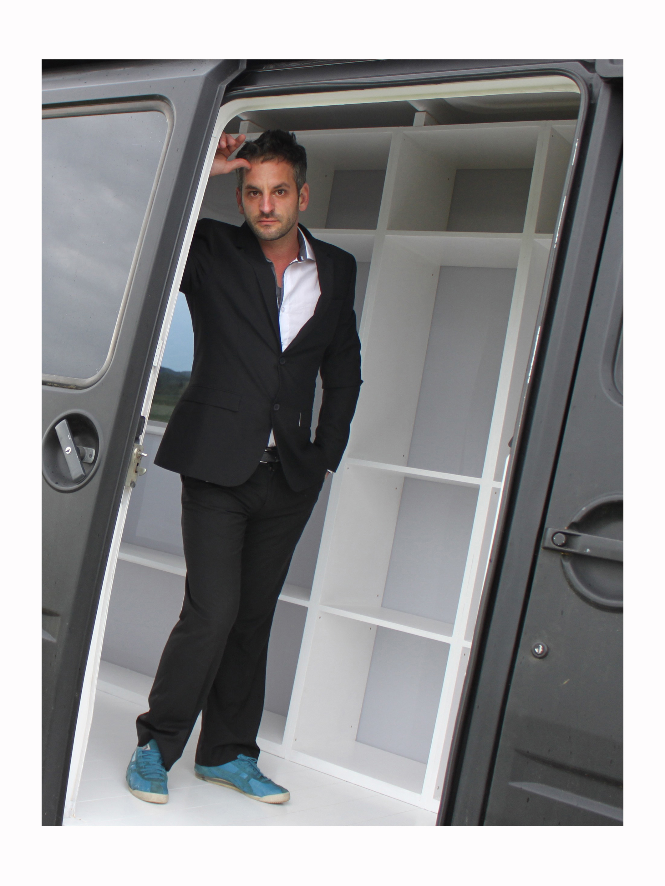 Portrait of Swiss artist and curator Andreas Heusser